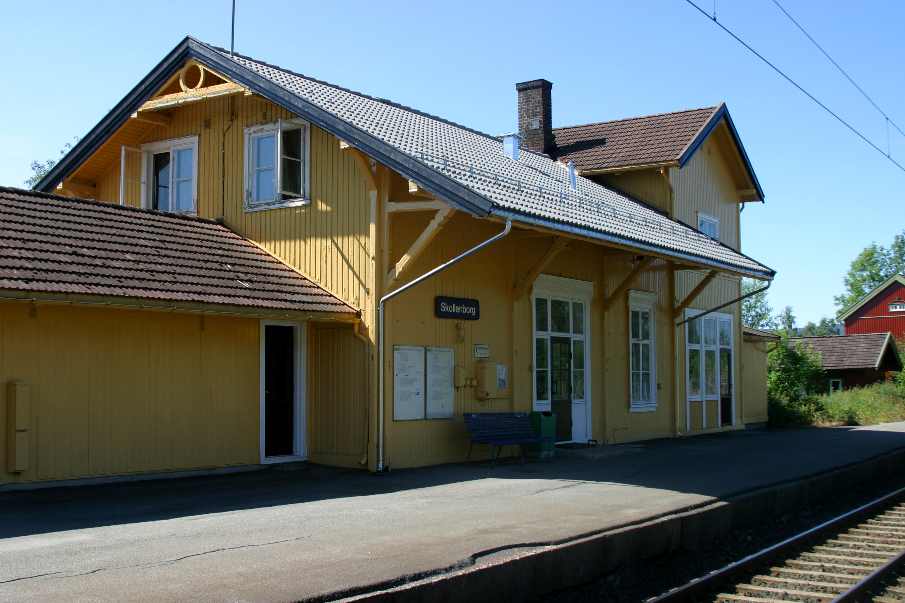 Picture of Skollenborg Railway Station (Norway)